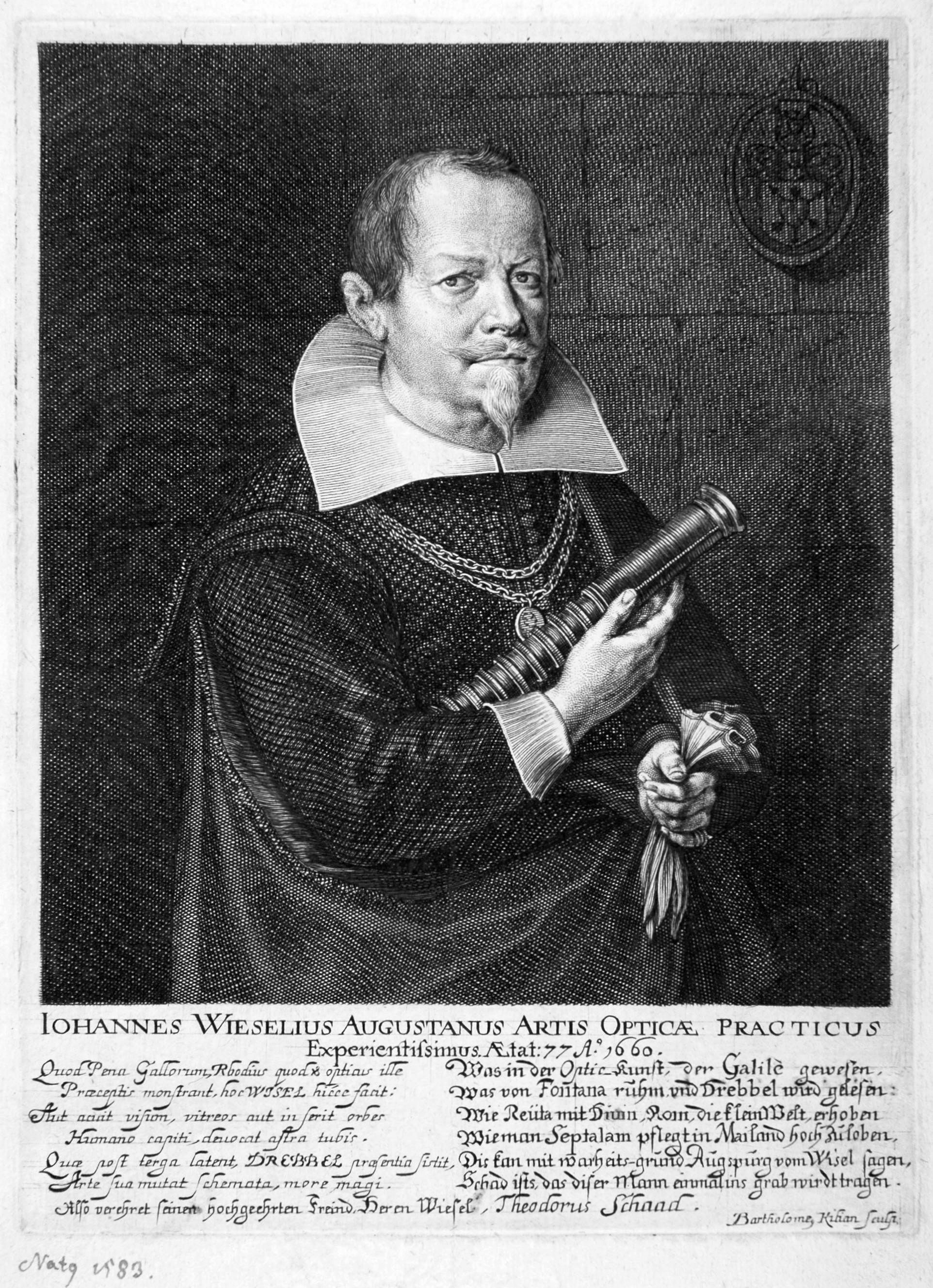 Engraving of Johann Wiesel (1583-1662)